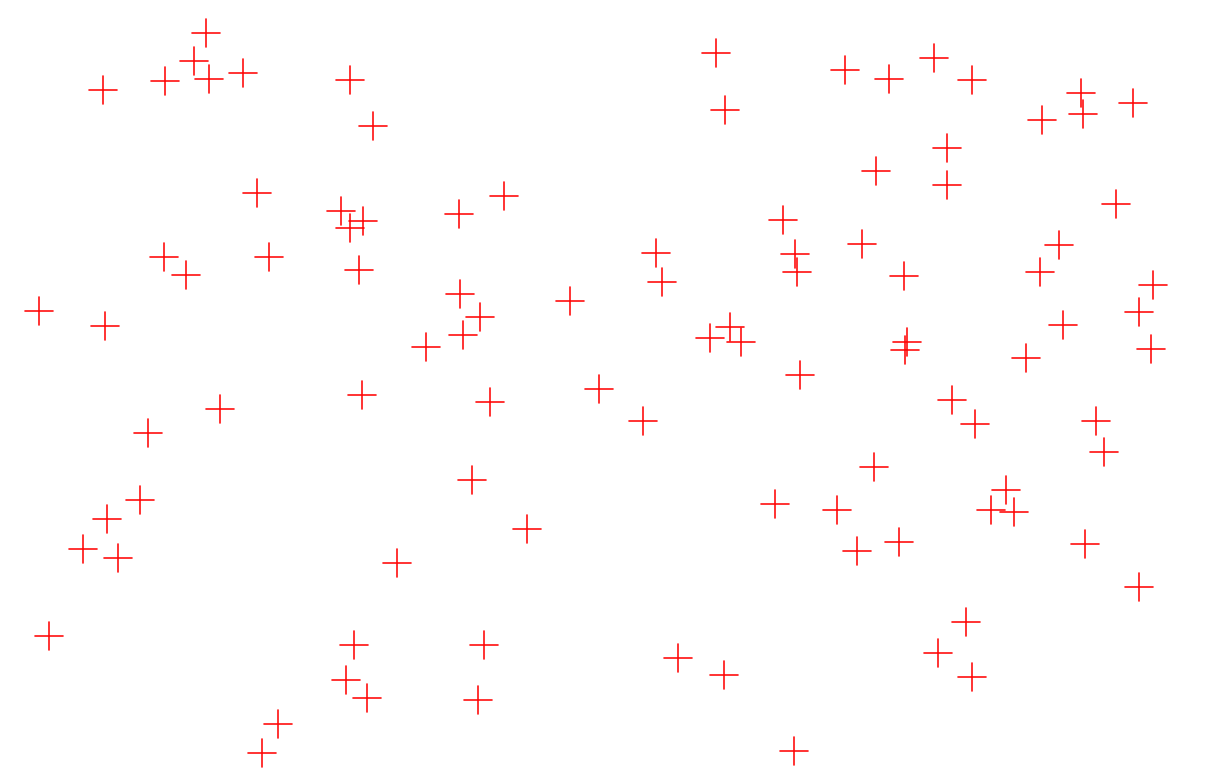 An example of randomness in data: this data is randomly generated, but it is easy to assume that there are patterns in it when looking at it. Data generated in Excel using a standard rand function.